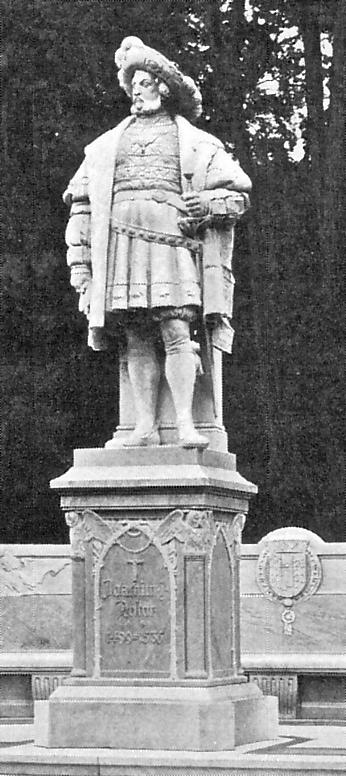 Monumentgroup № 19 in the former Siegesallee in Berlin. The central monument commemorates to Joachim I Nestor, Elector of Brandenburg. Sculptor: Johannes Götz, inaugurated 28 August 1900.